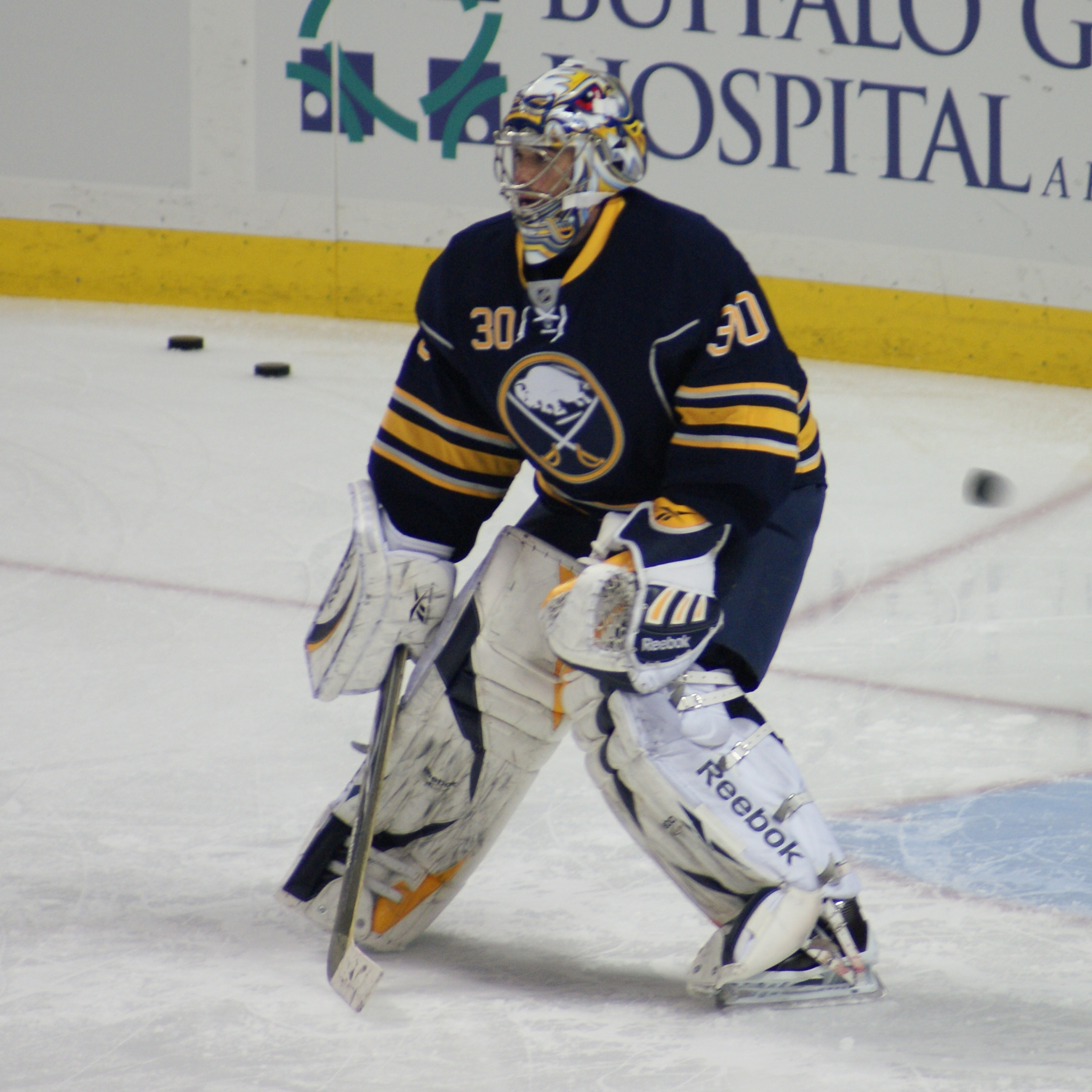 Ryan miller, game 1 2010.